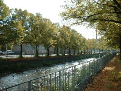 The Weißeritz at Dresden-Plauen